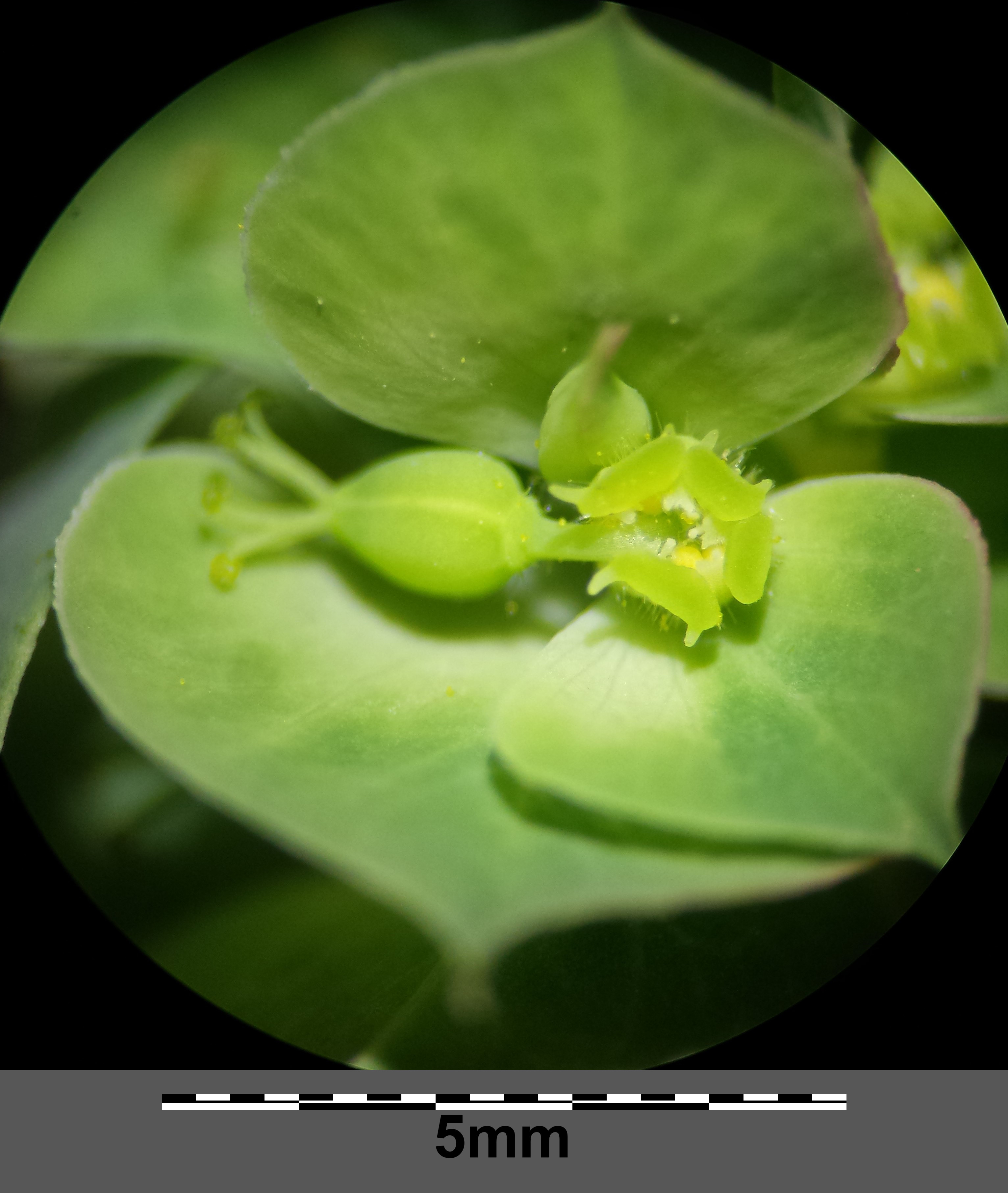 Cyathium Taxonym: Euphorbia falcata (s. str.) ss Fischer et al. EfÖLS 2008 ISBN 978-3-85474-187-9 Location: next to Gebmannsberg, district Korneuburg, Lower Austria - ca. 300 m a.s.l. Habitat: field